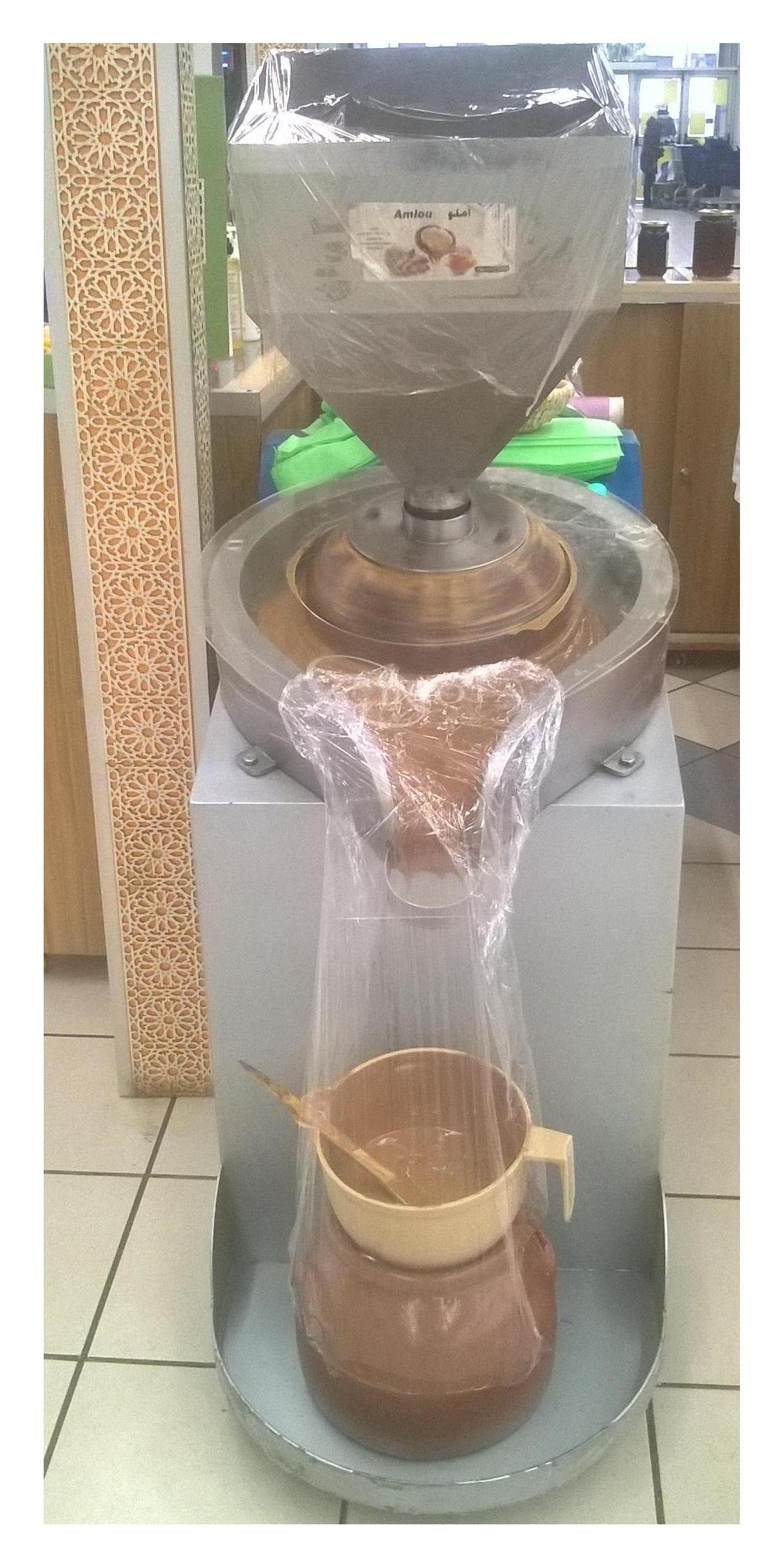 Argan Oil Mill